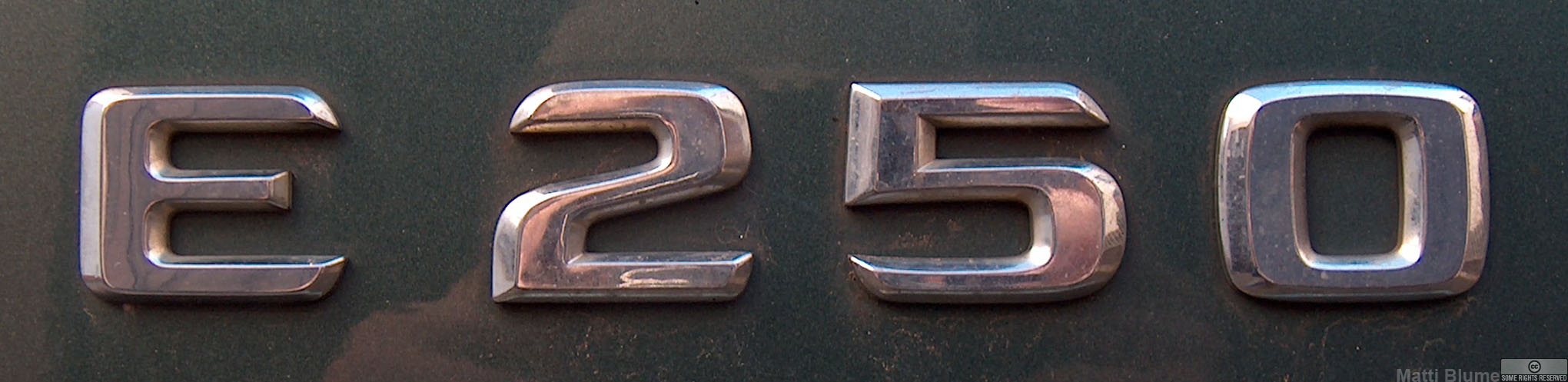 Written characters on a Mercedes-Benz.